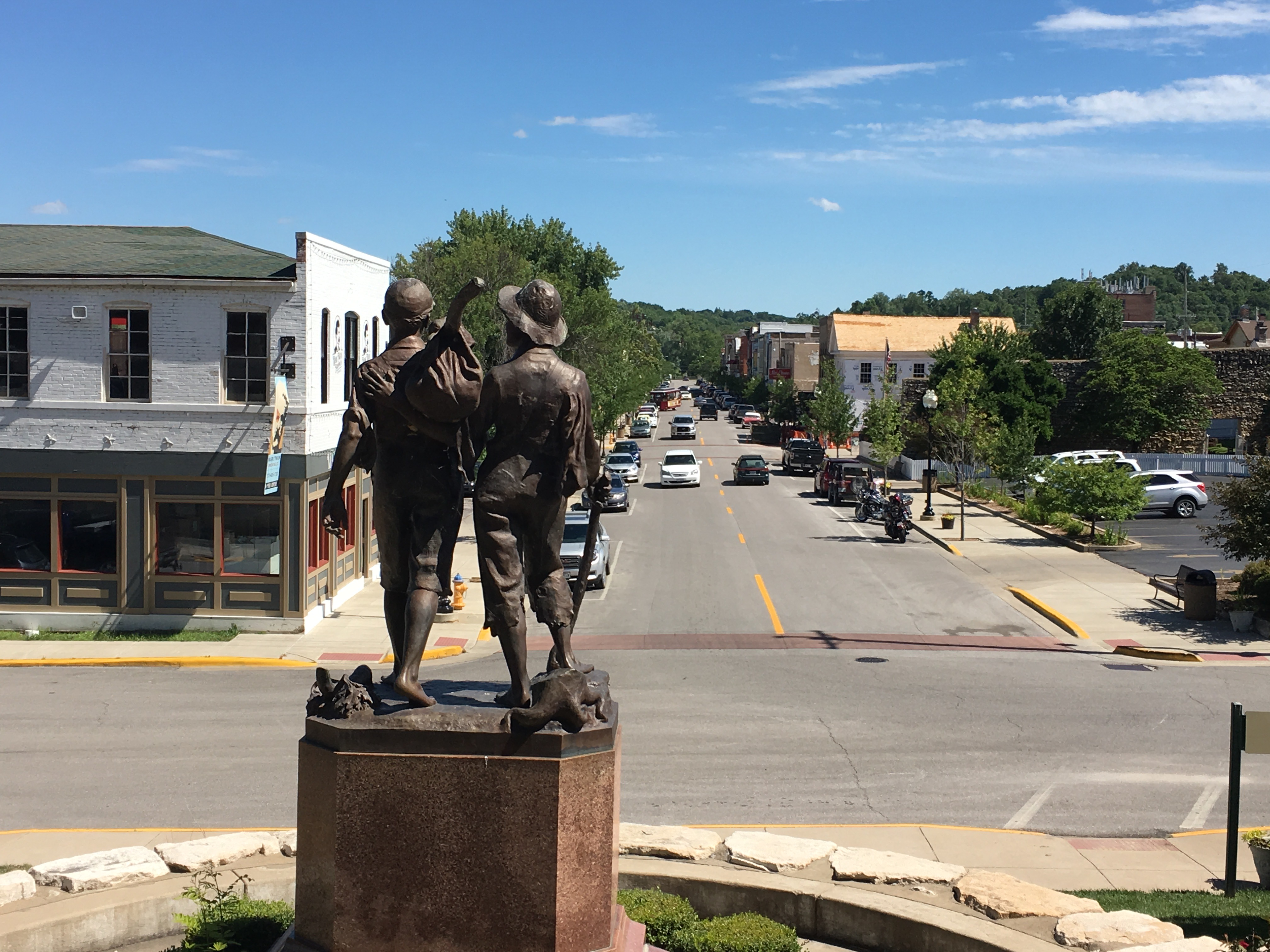 Tom and Huck Statue overlooking Main Street, Hannibal